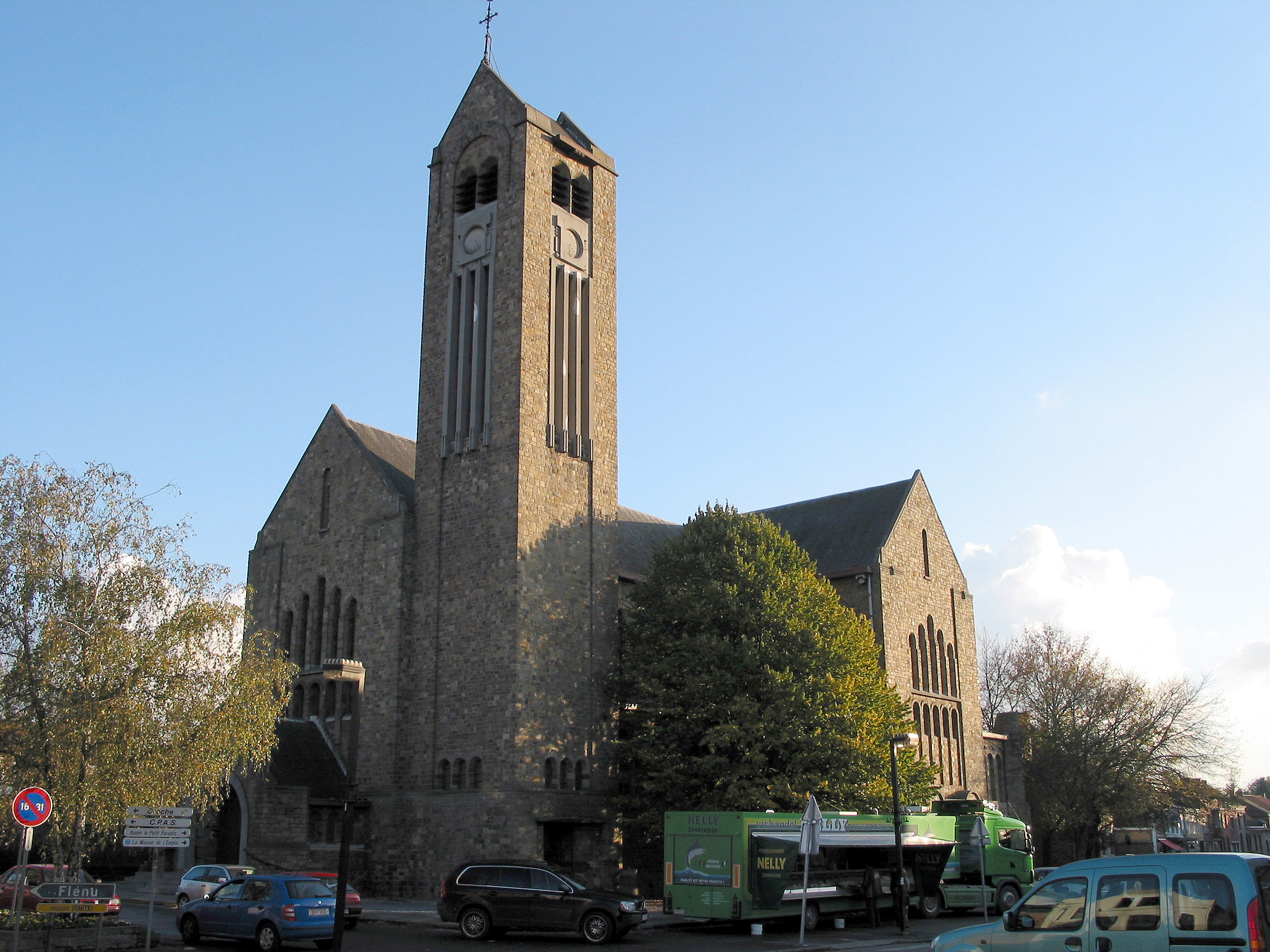 Quaregnon (Belgium), the new St. Quentin 's church (1934).